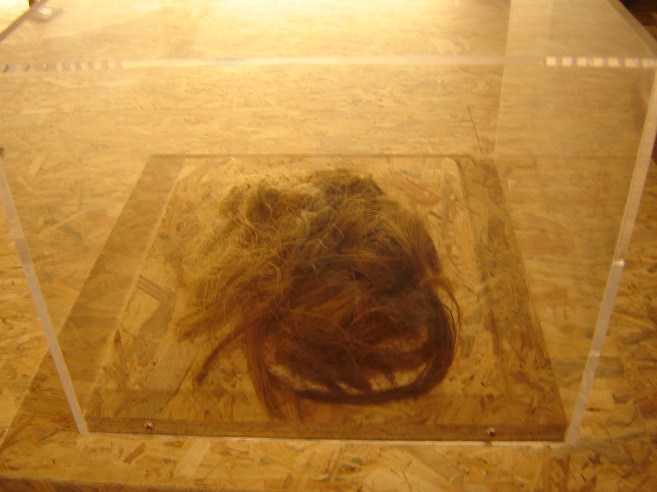 Mammuthus primigenius hair. From the mamouth-exposition in Le Puy en Velay (France).